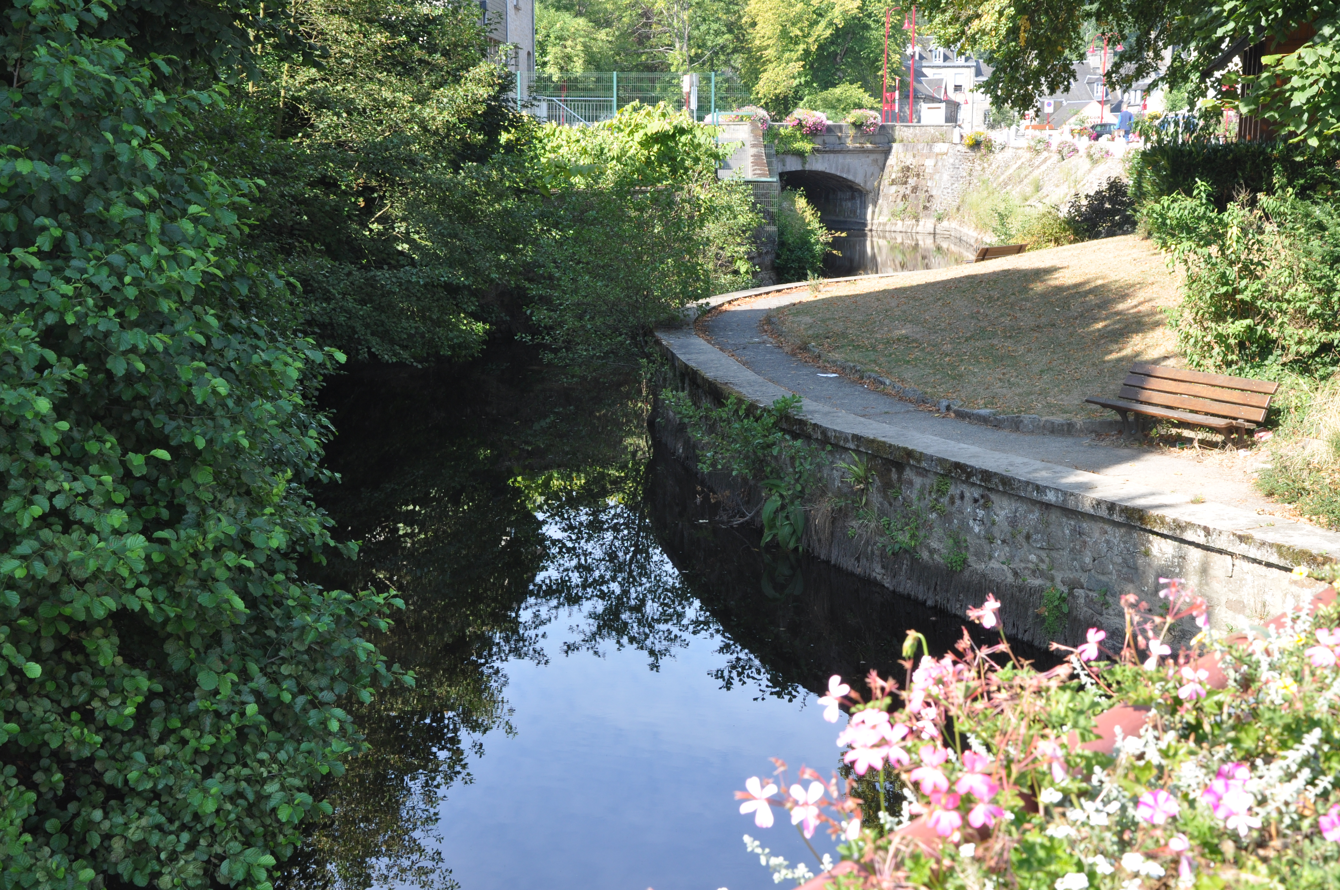 Villedieu-les-Poêles (France, Normandy), Sienne river